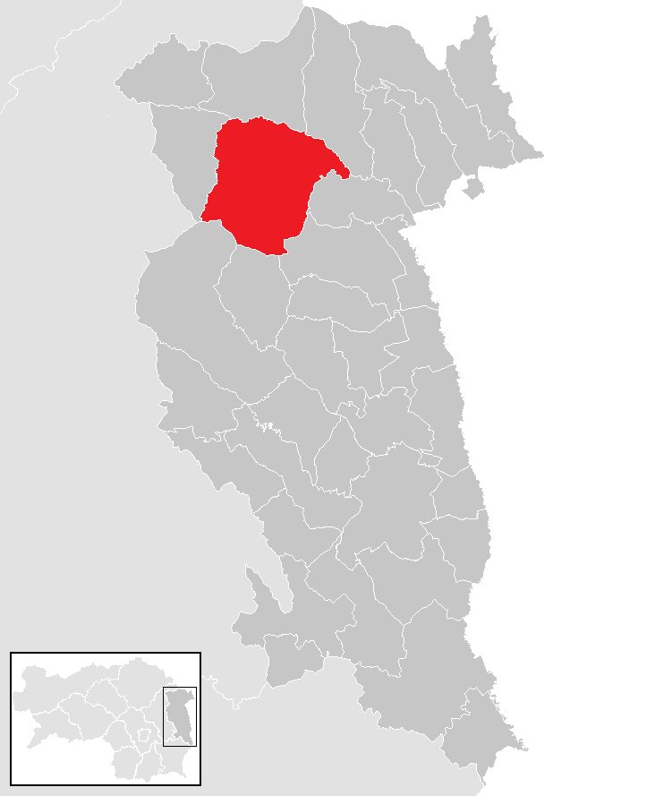 district Hartberg-Fürstenfeld